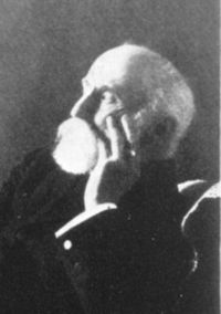 Dr. Wilhelm Hübbe-Schleiden (1846-1916)